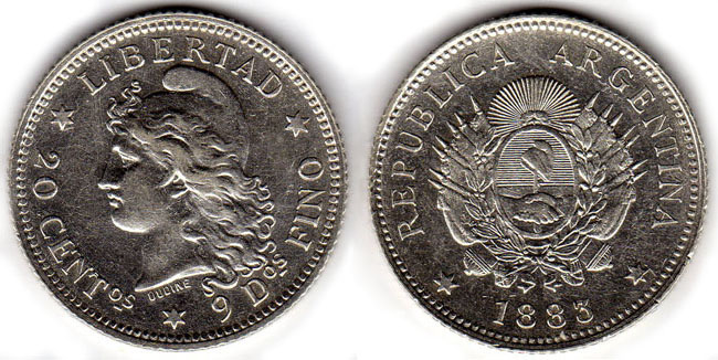 Argentine coin, 20 centavos 1883 Peso Moneda Nacional - Diameter of the coin: 23mm.